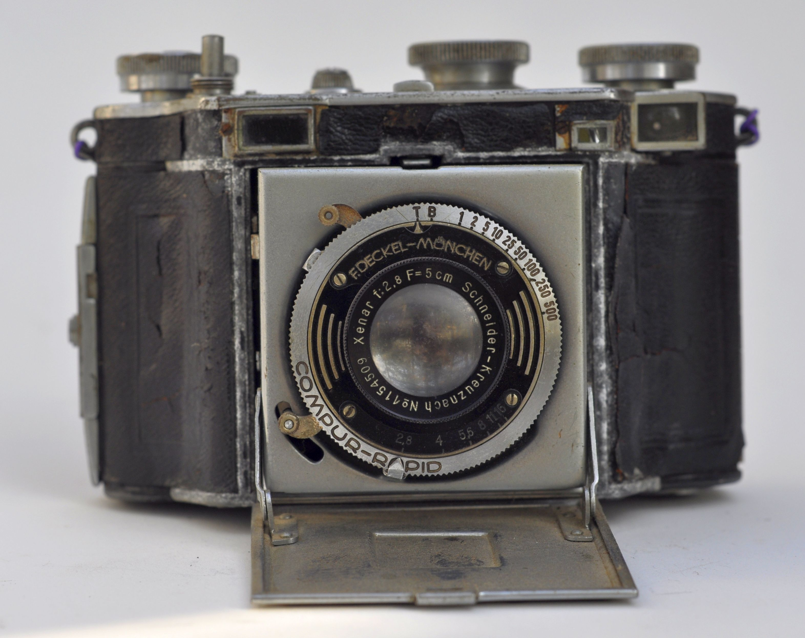 The Dollina III folding camera was manufactured by the Certo Camera Werk of Dresden Germany, beginning approximately 1937. The camera was constructed of all metal and finished in both polished black enamel and chrome plated mountings. It was covered in black leather and fitted with a leather bellows. It was a 35mm camera with a built-in coupled rangefinder. It featured convenient external focusing knob on top, automatic film counter that locks once film is advanced, a built-in viewfinder corrected for parralax, tubular style and sockets for tripod. It was fitted with a Compur-Rapid shutter with 9 speeds from one to 1/500 of a second. Optional lens including a Tessar f2.8, a Radionar f2.9, or Xenar f2.8 or a Xenon f2.0.